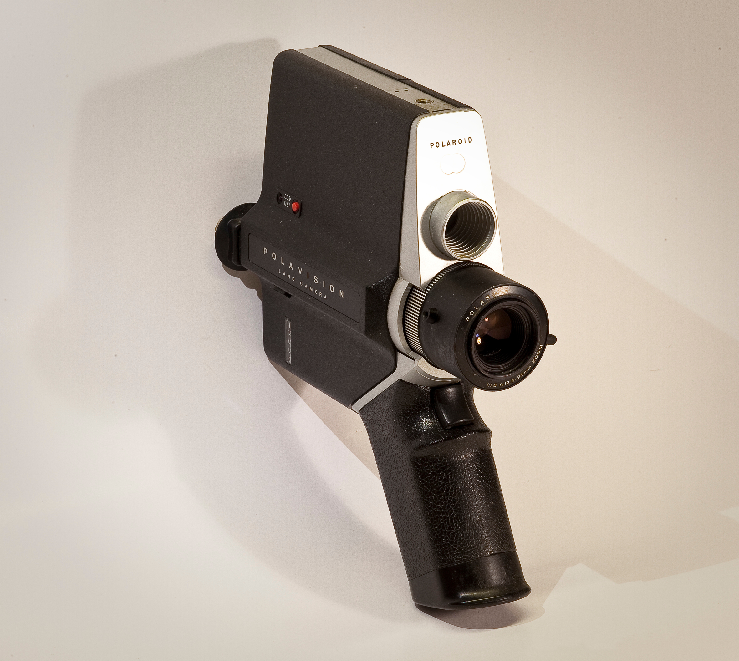 Polavision Landcamera - Polaroid. Press L for Lightbox.